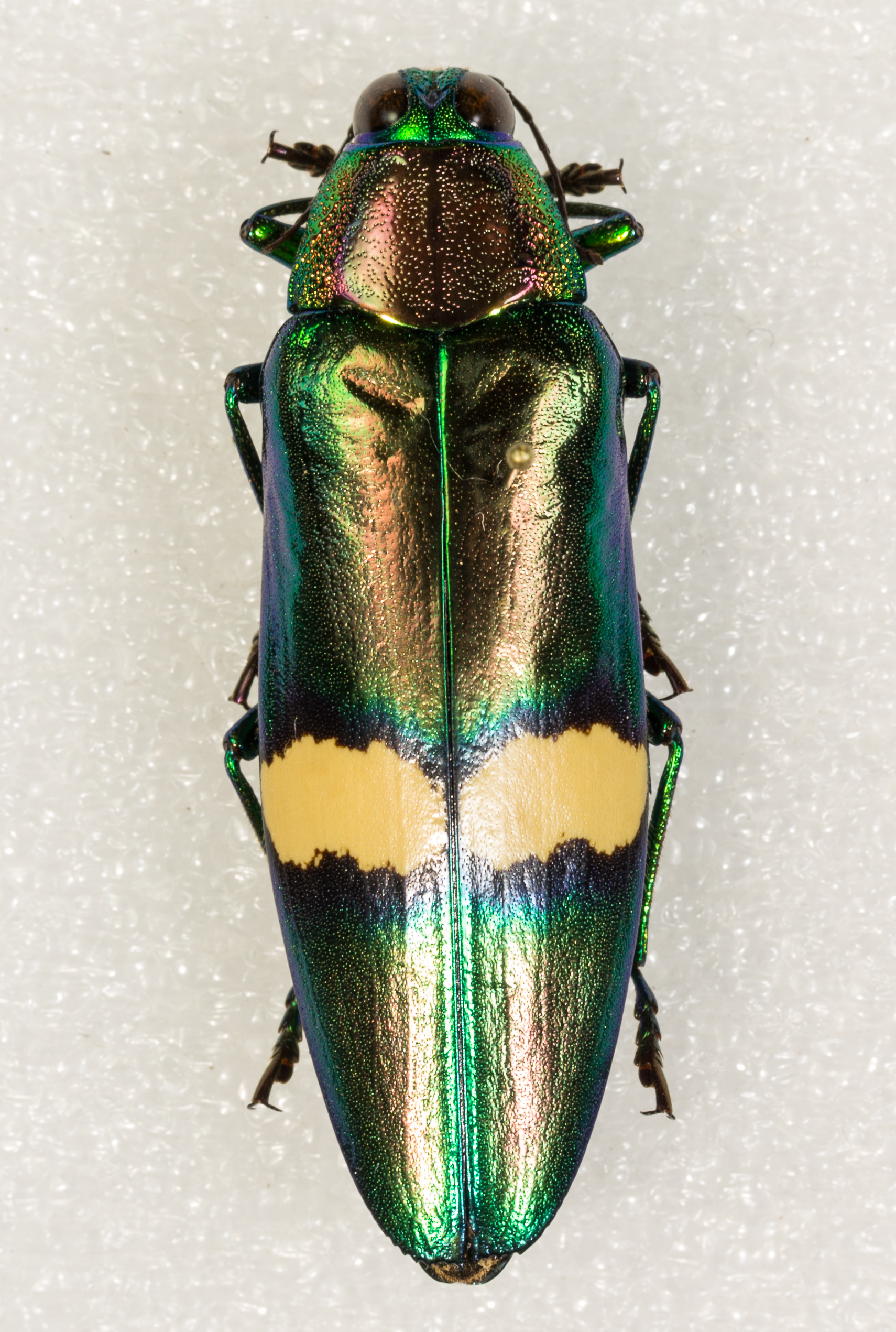 Chrysochroa saundersii from collections of zoology of University of Rennes 1.